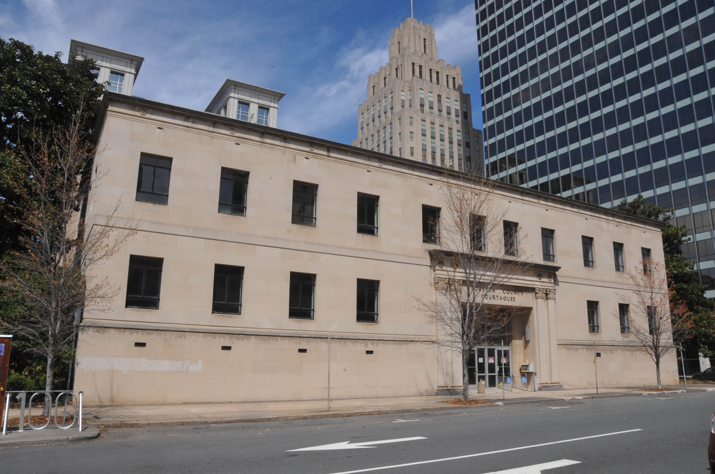 This is the side of the building given as the official address on 11 West 3rd Street.